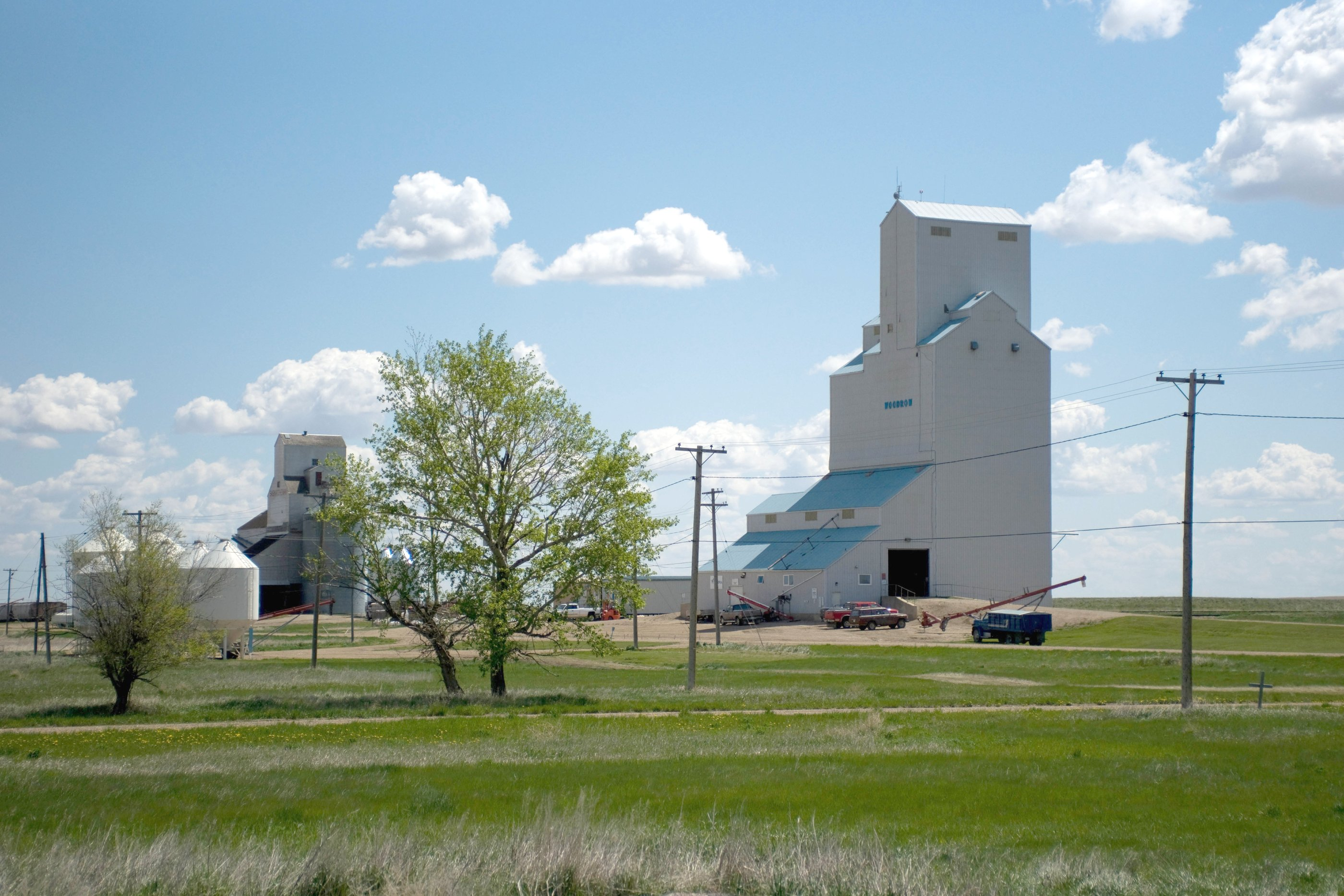 From